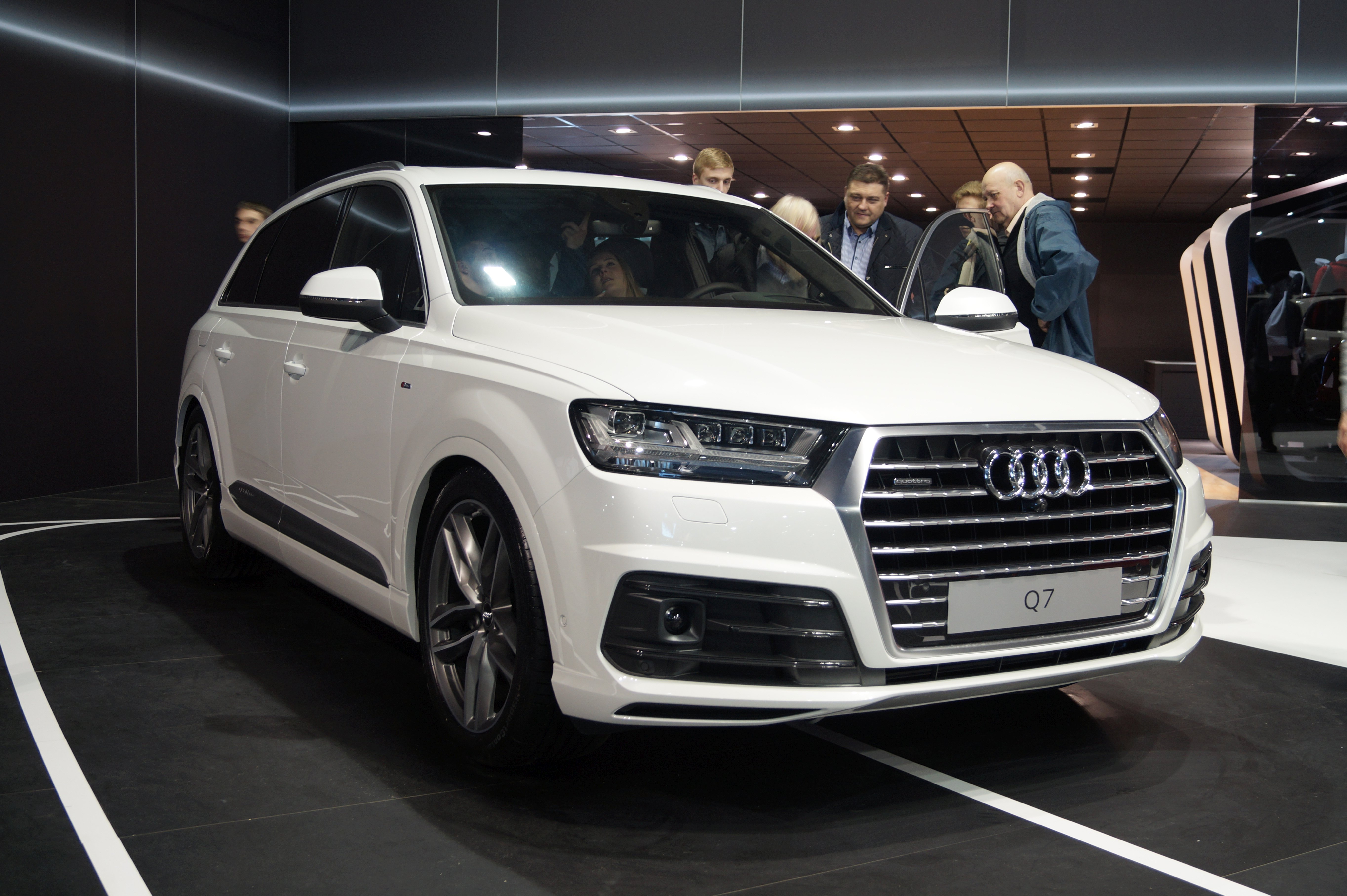 The making of this document was supported by Wikimedia Polska Association, within Wikigrant no. WG 2016-10. Przód samochodu Audi Q7 na Motor Show Poznań 2016